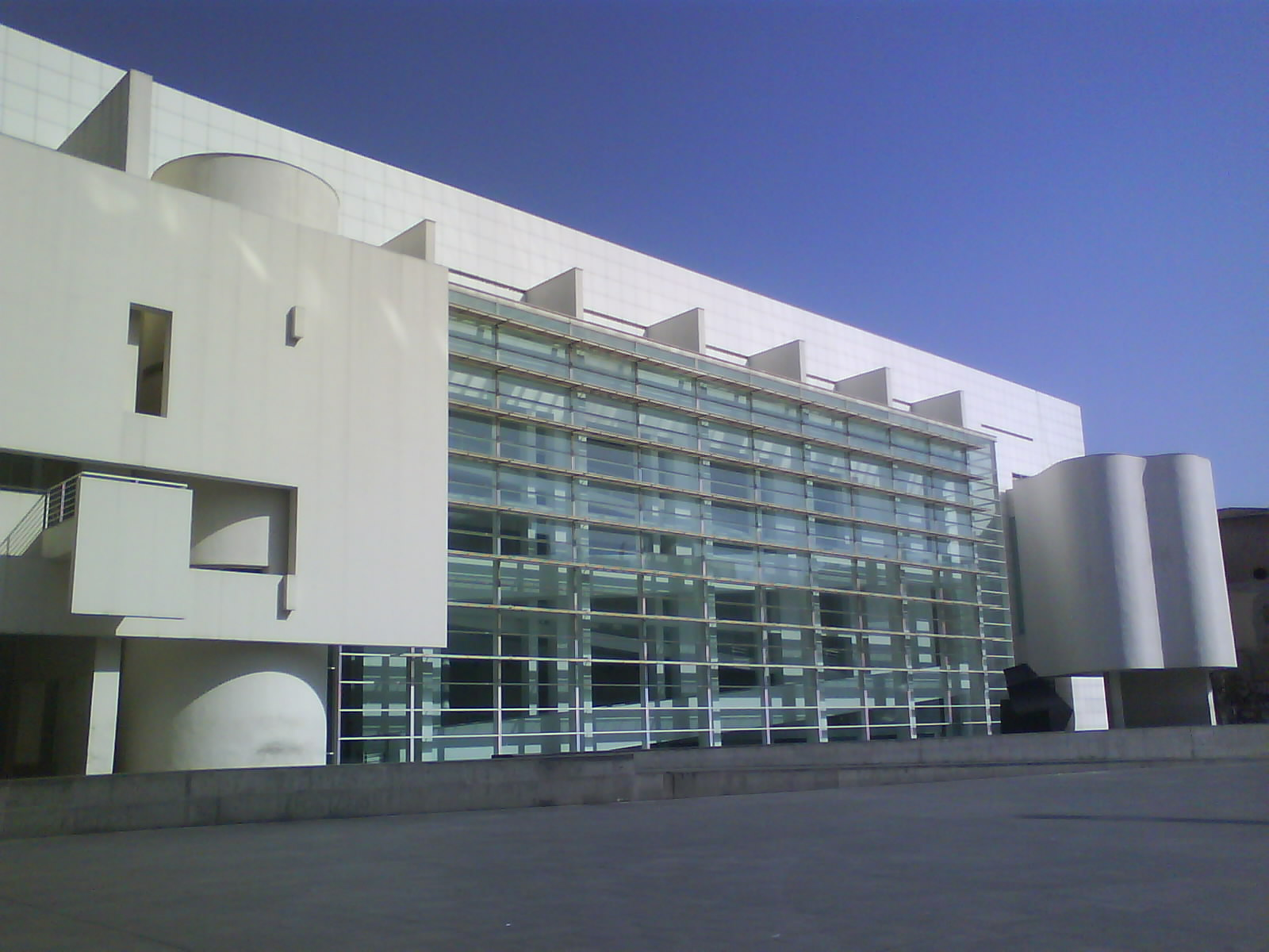 A shinny Saturday in Macba